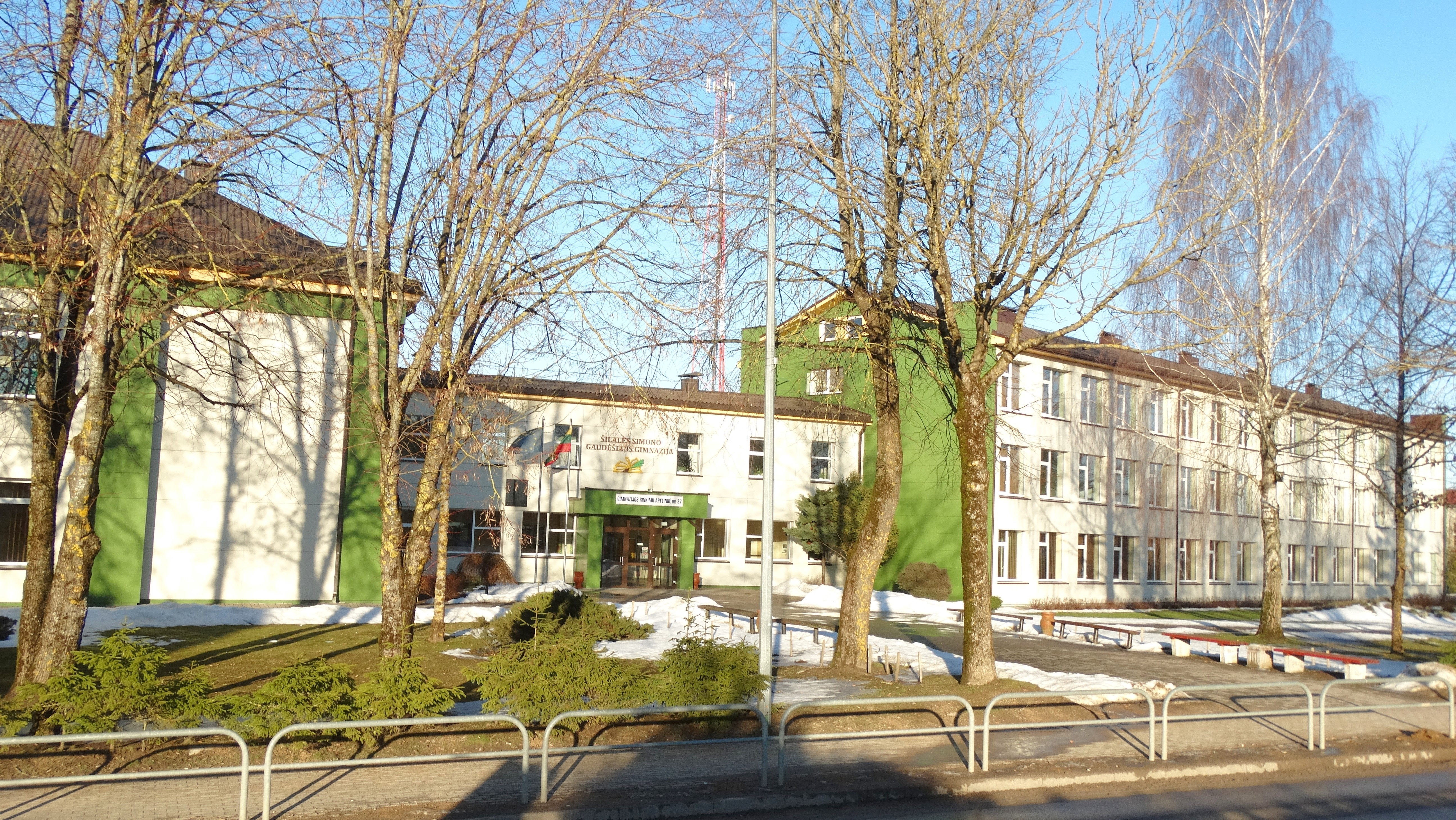 Simonas Gaudėšius' gymnasium, Šilalė, Lithuania